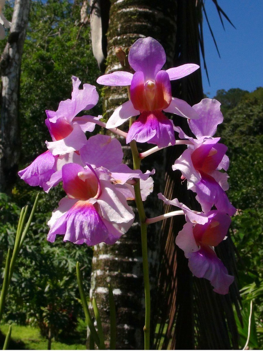 Cultivar: Vanda 'Miss Joaquim'. - Southern Costa Rica, Piedras Blancas Nationalpark, orchid garden near Golfito.